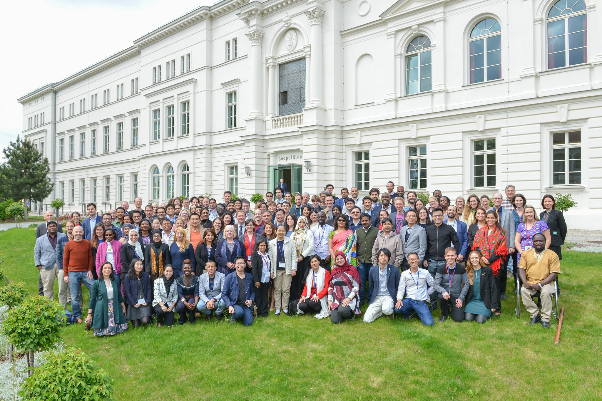 A group picture of members and alumni of the Global Young Academy for its anniversary annual general meeting